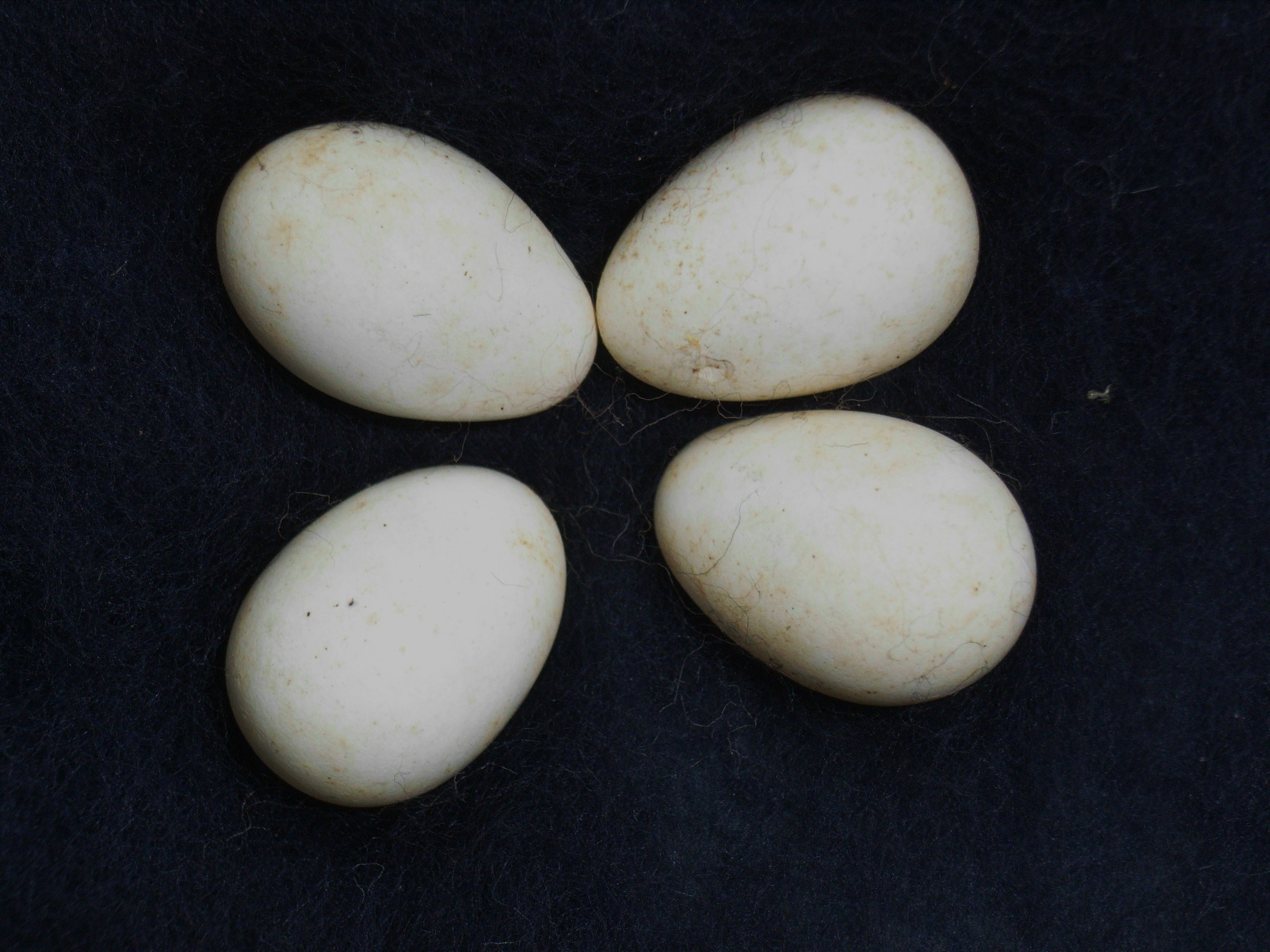 Delichon urbicum eggs